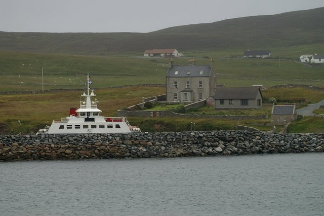 Maryfield, Bressay The Bressay ferry terminal and Maryfield, which is a public house.